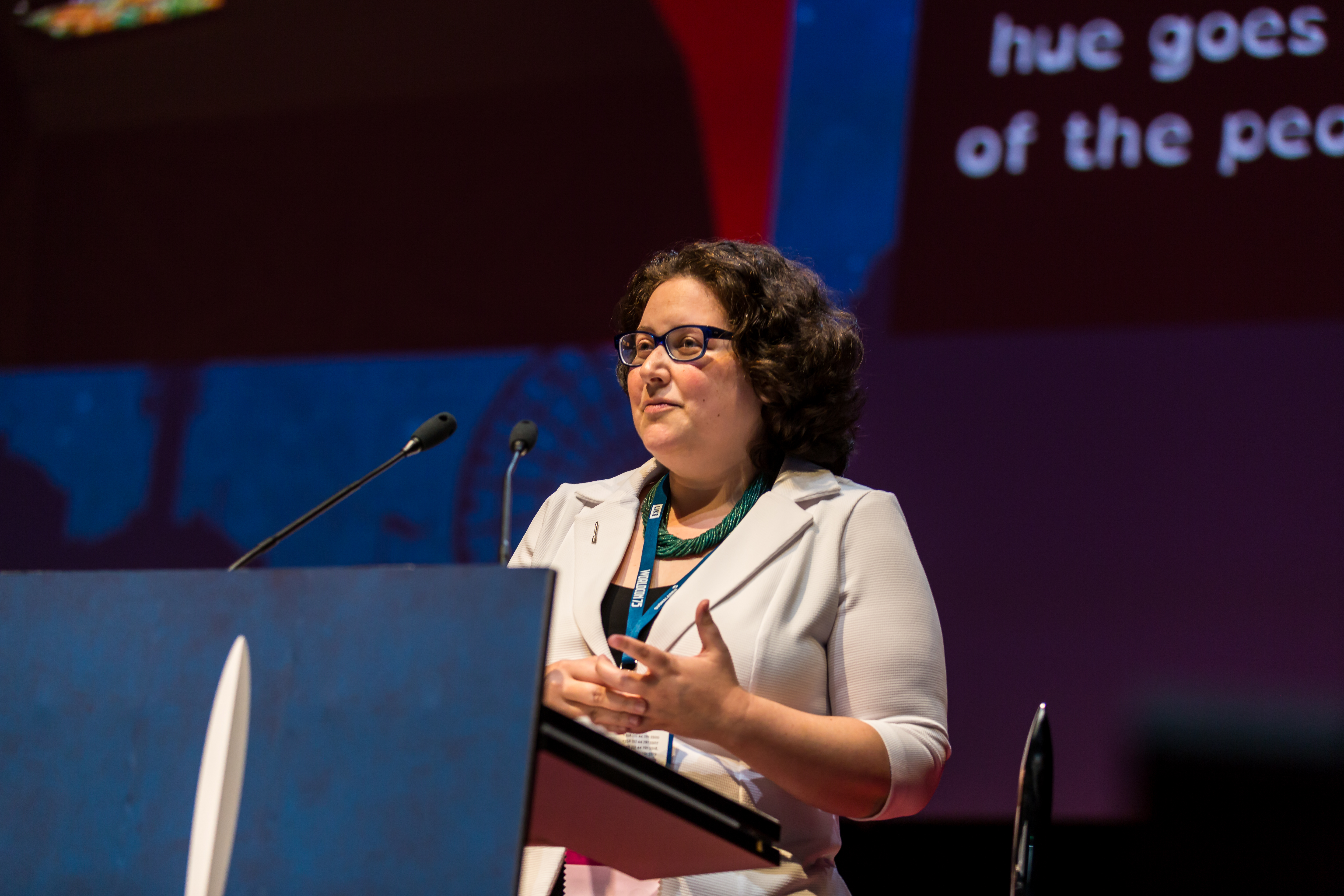 Abigail Nussbaum, Best Fan Writer.